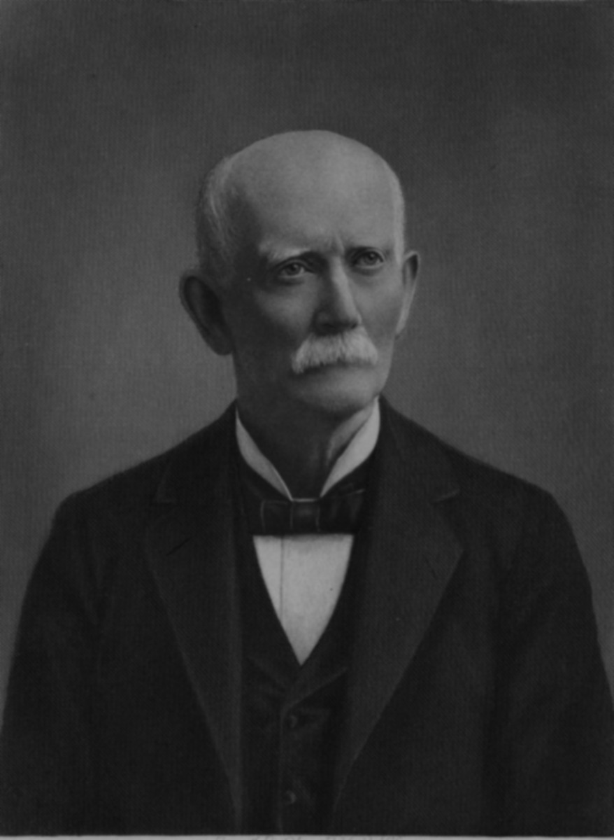 David P. Jenkins in 1890. Item 168892, City Attorney Portraits (Record Series 4400-03), Seattle Municipal Archives.